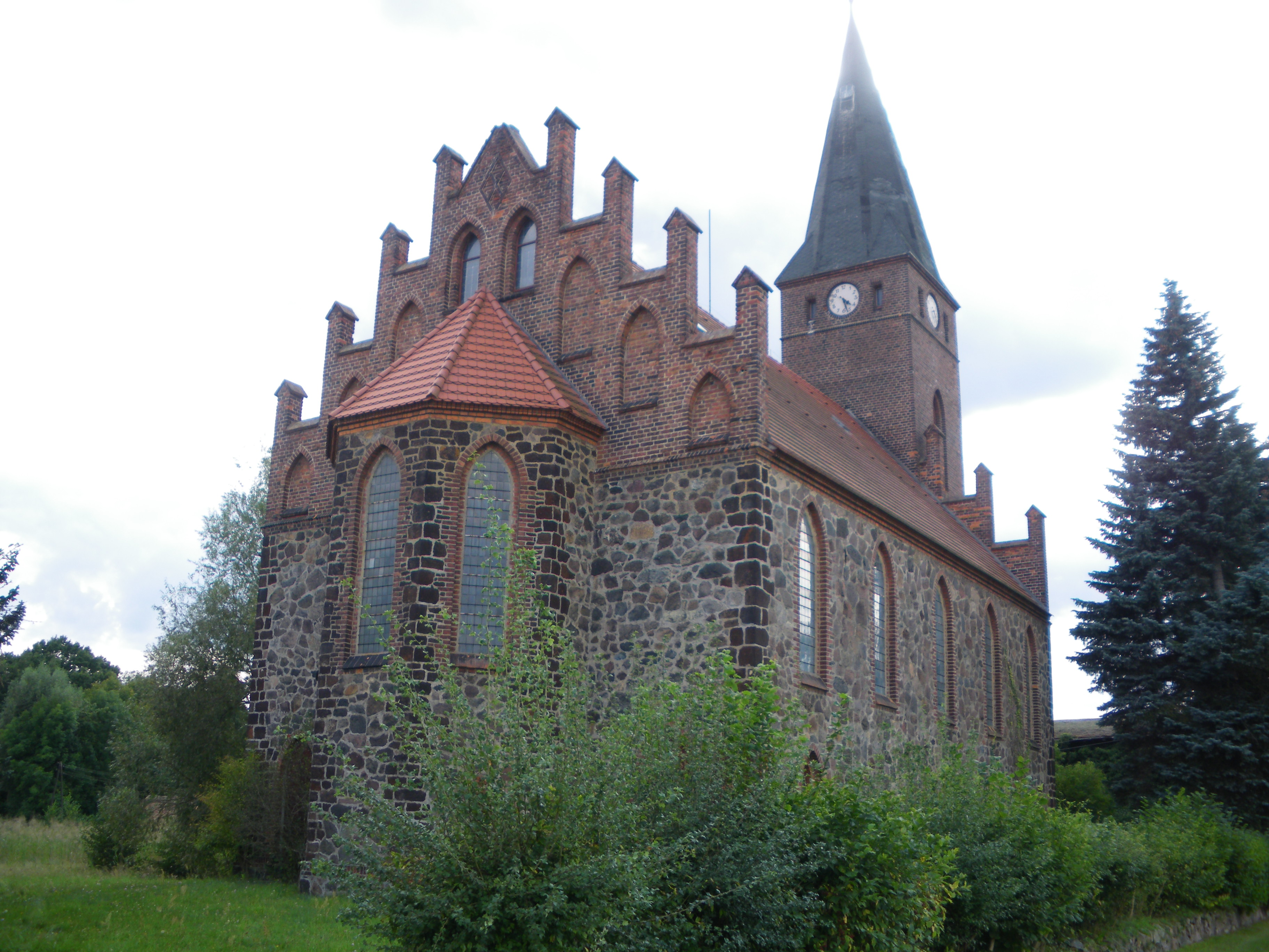 Church in Gross-Mehssow, Calau, Brandenburg, Germany